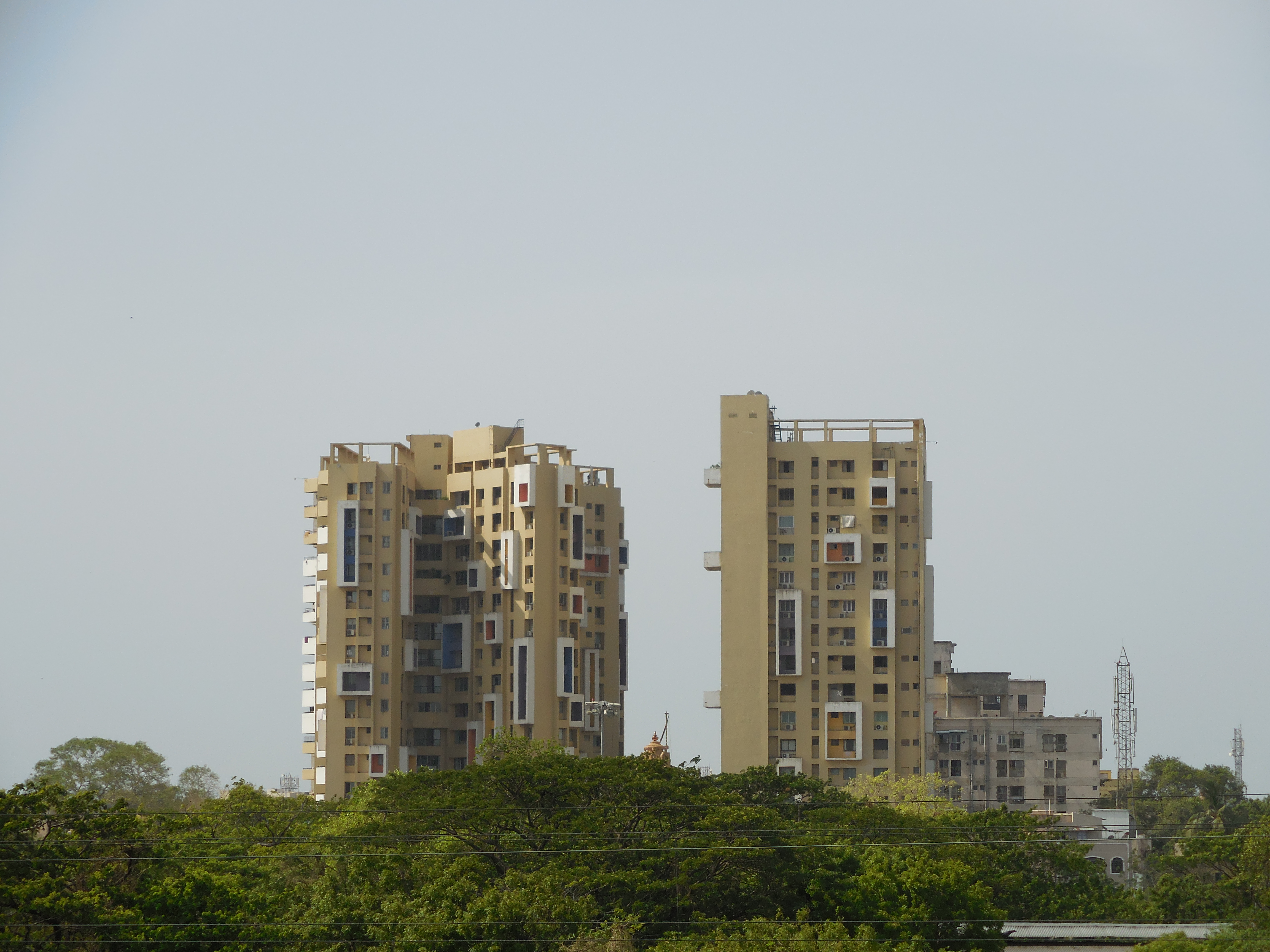 View of Osian Heights Towers, Chennai, taken from Washermanpet railway line on 21-Jun-2014 at 9:27 am